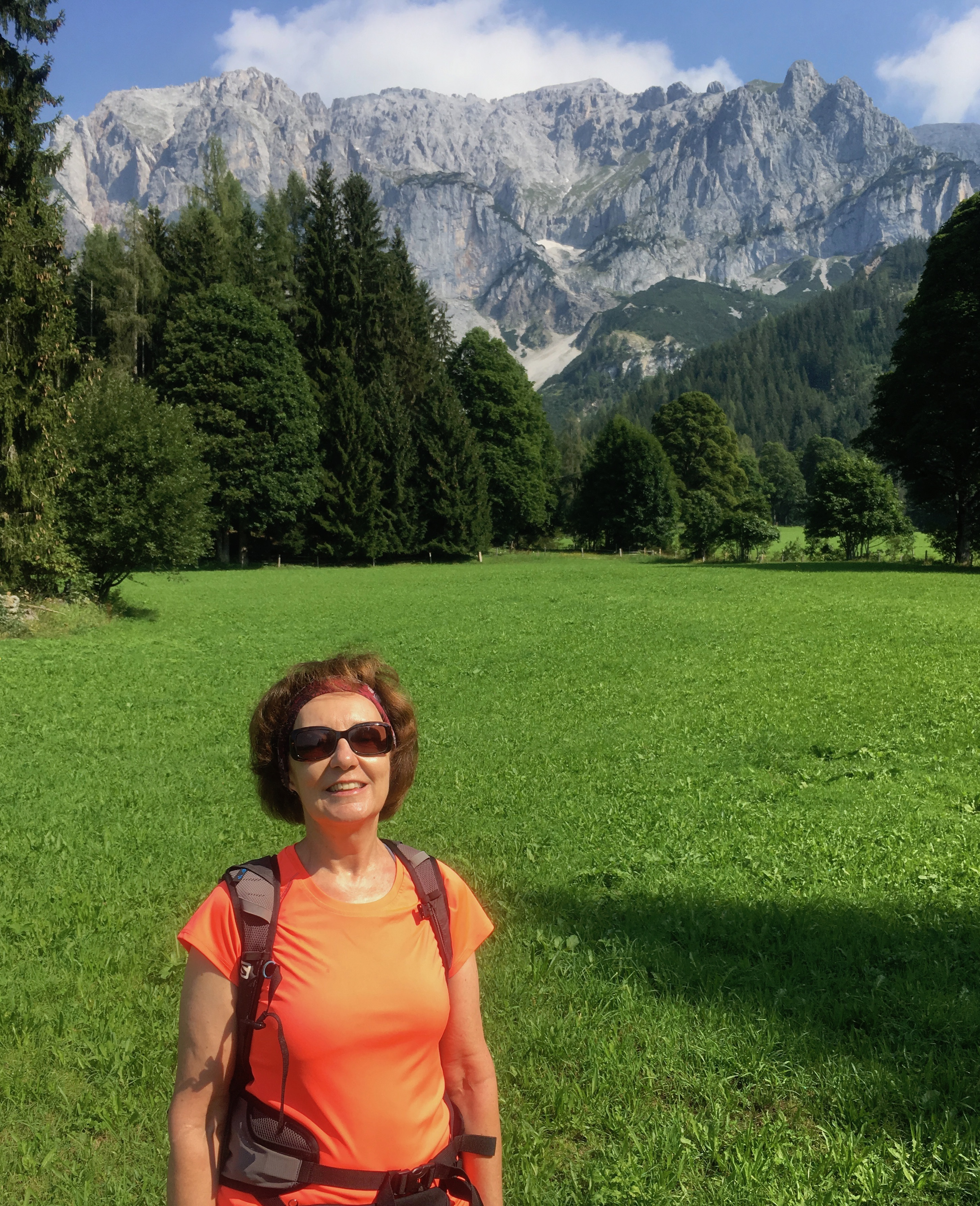 Dachstein Region, Styria